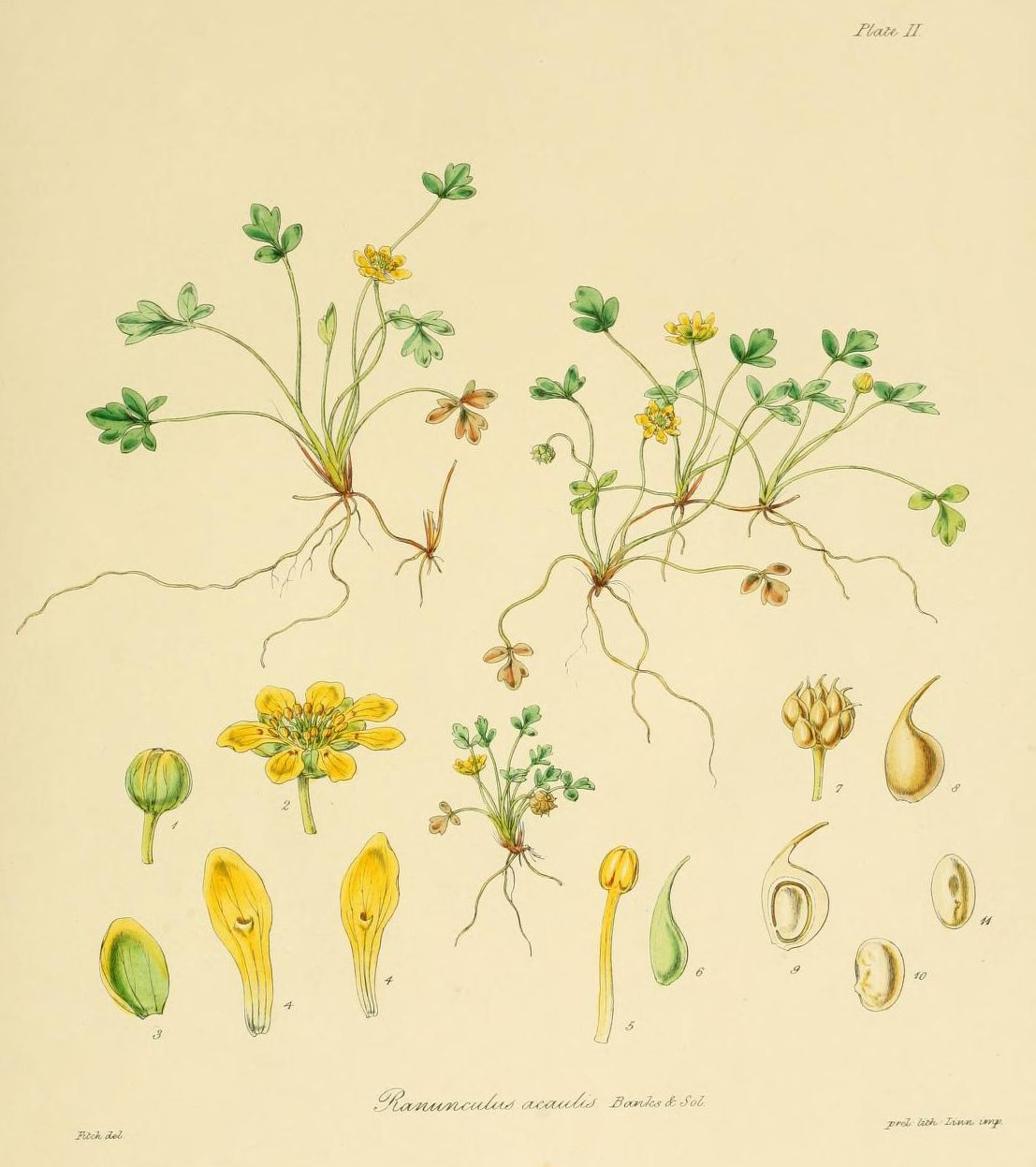 jpg of Plate II of Hooker's Flora Antarctica. Ranunculus acaulis Banks & Sol.